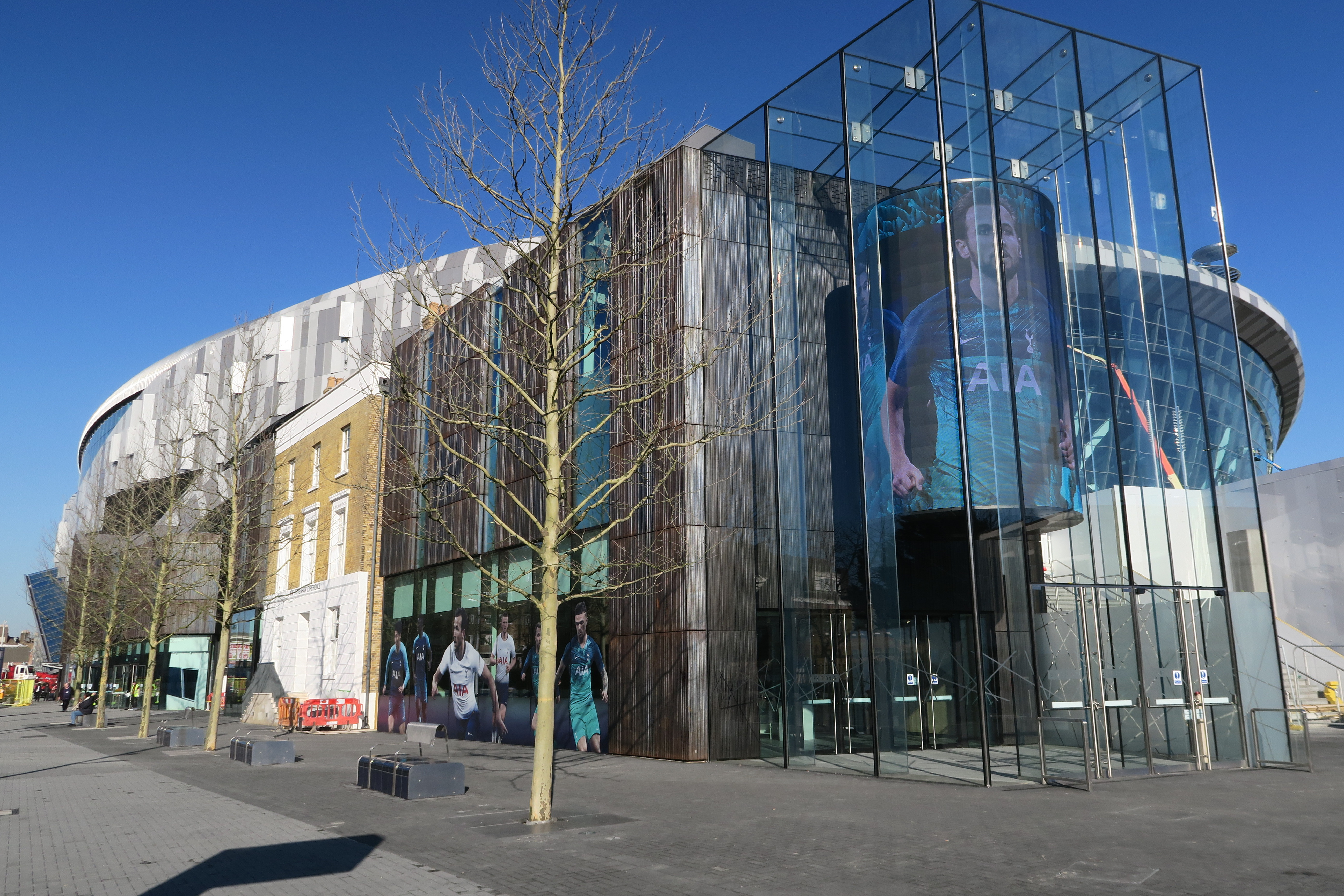 Tottenham Hotspur Stadium and the Tottenham Experience along Tottenham High Road